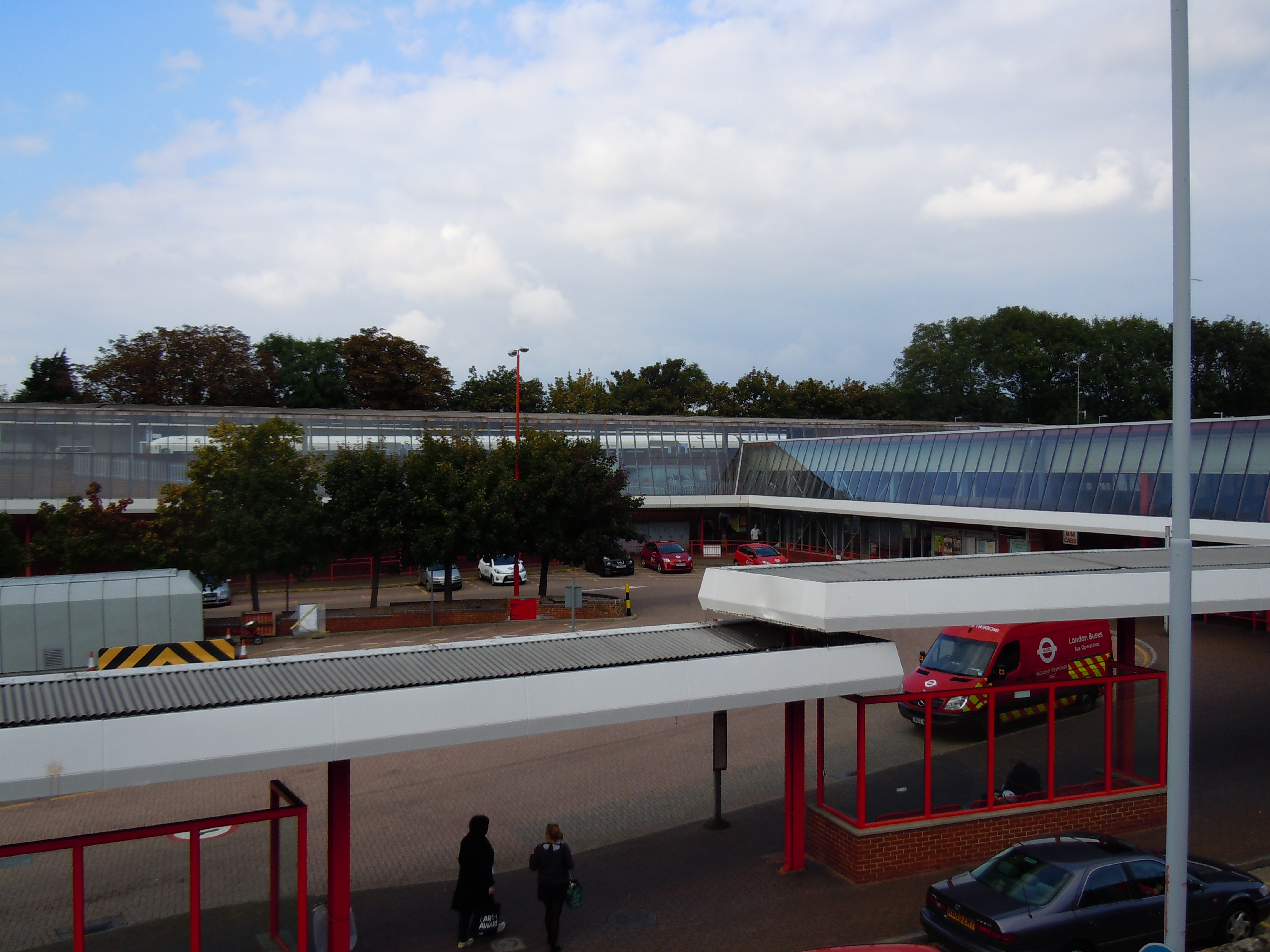 Eltham train and bus station. Opened 1986 to replace the former Eltham well Hall and Eltham Park stations